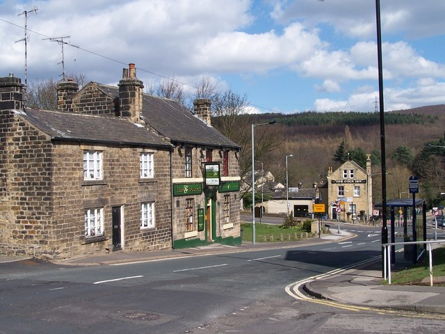 Hare and Hounds and Cock Inn Pubs, Oughtibridge Taken from the corner of Glossop Row and Church Street, looking down towards the River Don and the Bridge.